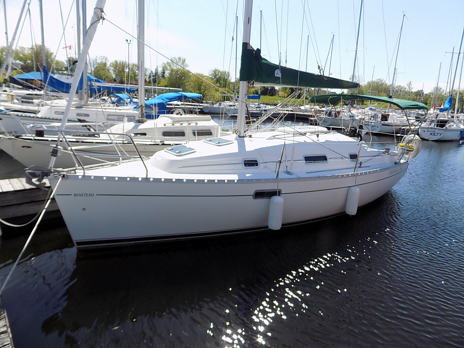 A Beneteau Oceanis 281 sailboat name Puffin.